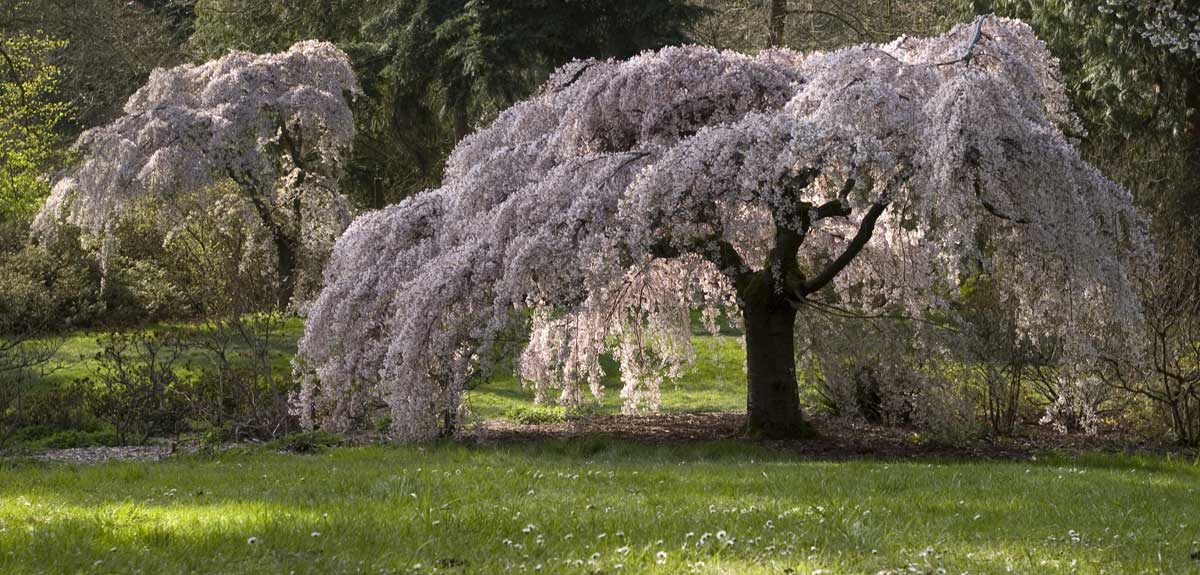 Flowering Prunus serrulata trees (Sakura) — Washington Park Arboretum, Seattle.Arboretum, Seattle